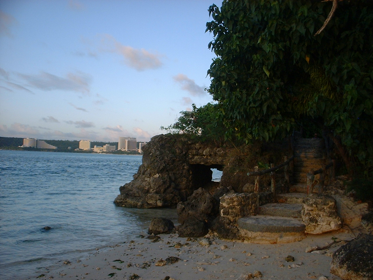 A small square tunnel built out of natural rock on Tumon Bay, Guam.